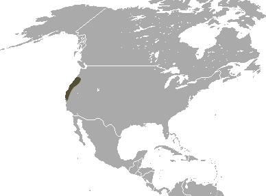 Fog Shrew (Sorex sonomae) range